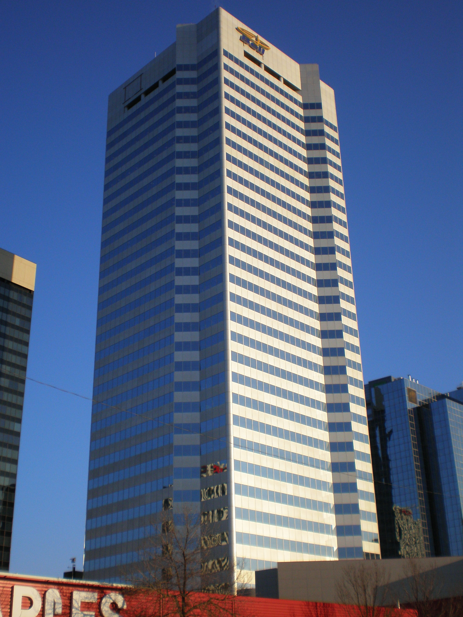 Bell Tower office buillding, Edmonton, Canada.